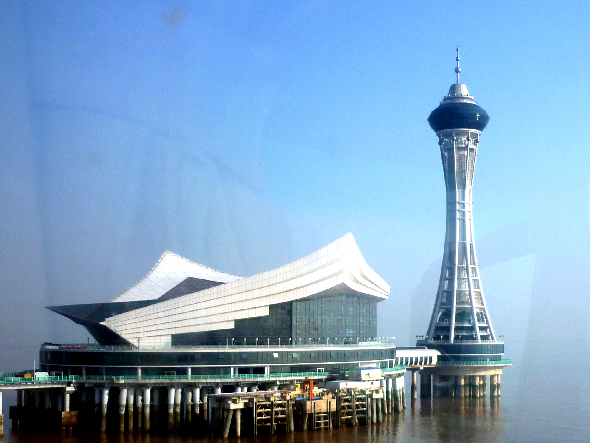 Service centre of Hangzhou Bay Bridge — on Hangzhou Bay in Zhejiang Province, SE China.